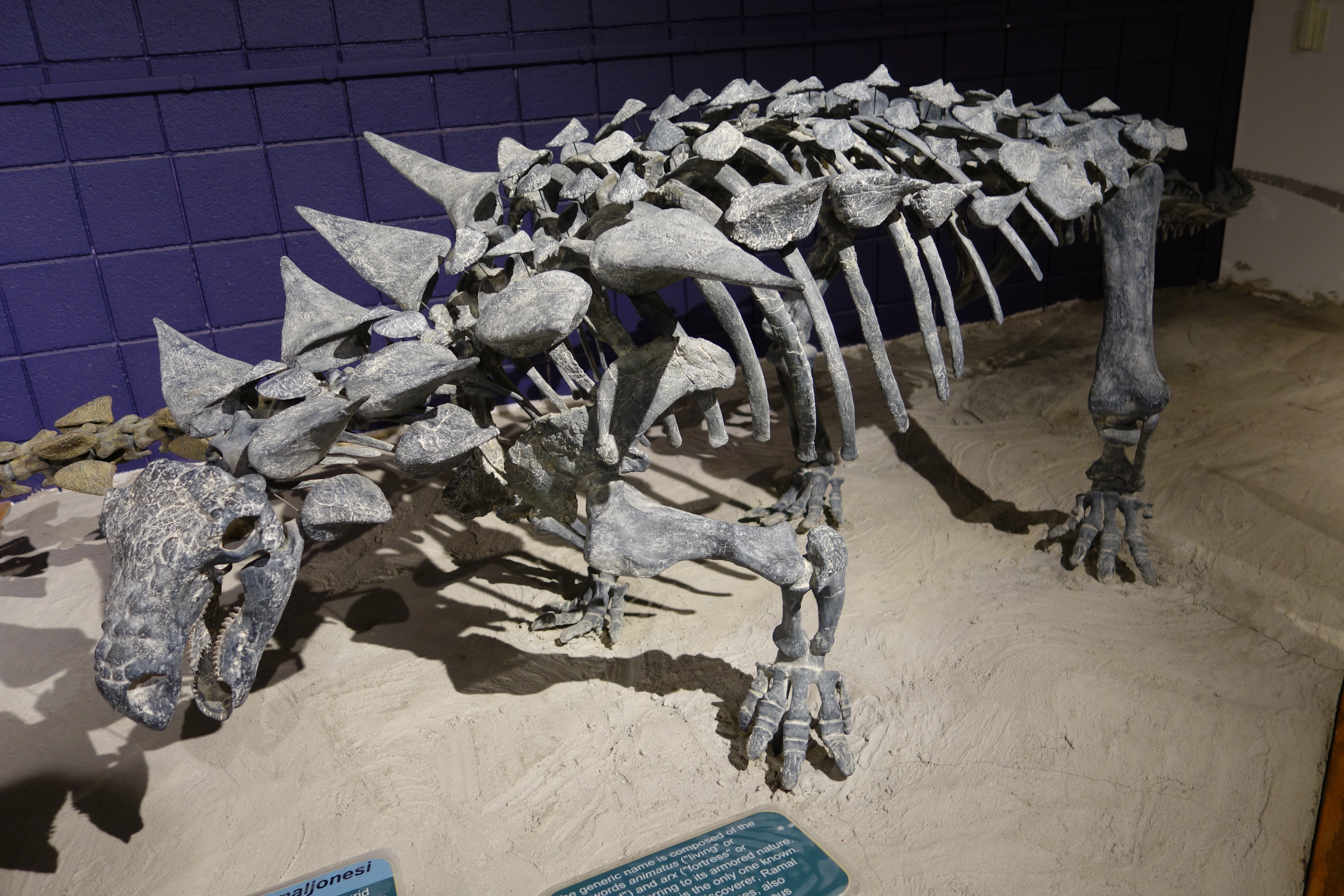 Skeletal cast of Animantarx ramaljonesi. On display at the USU Eastern Prehistoric Museum, Price, Utah (US).